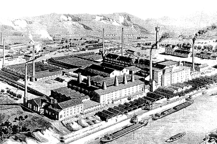 Aerial view of the Zementwerk (Cement Works) in Bonn-Oberkassel, Germany, in 1906.